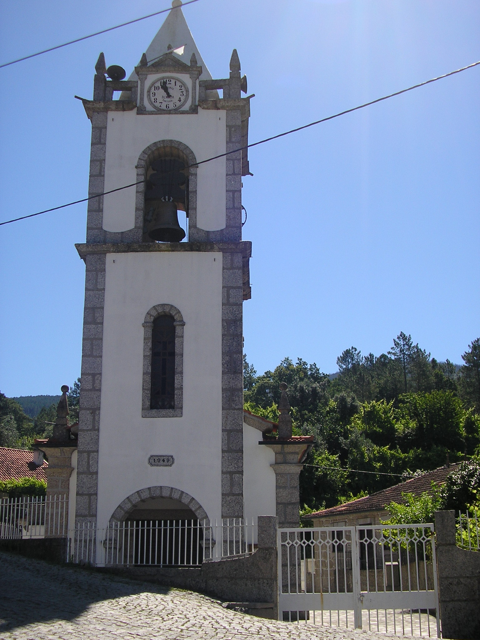 aboadela